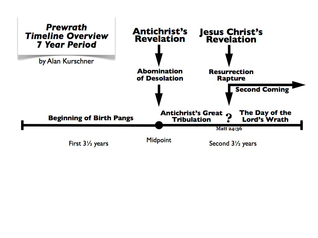 Prewrath Timeline Overview